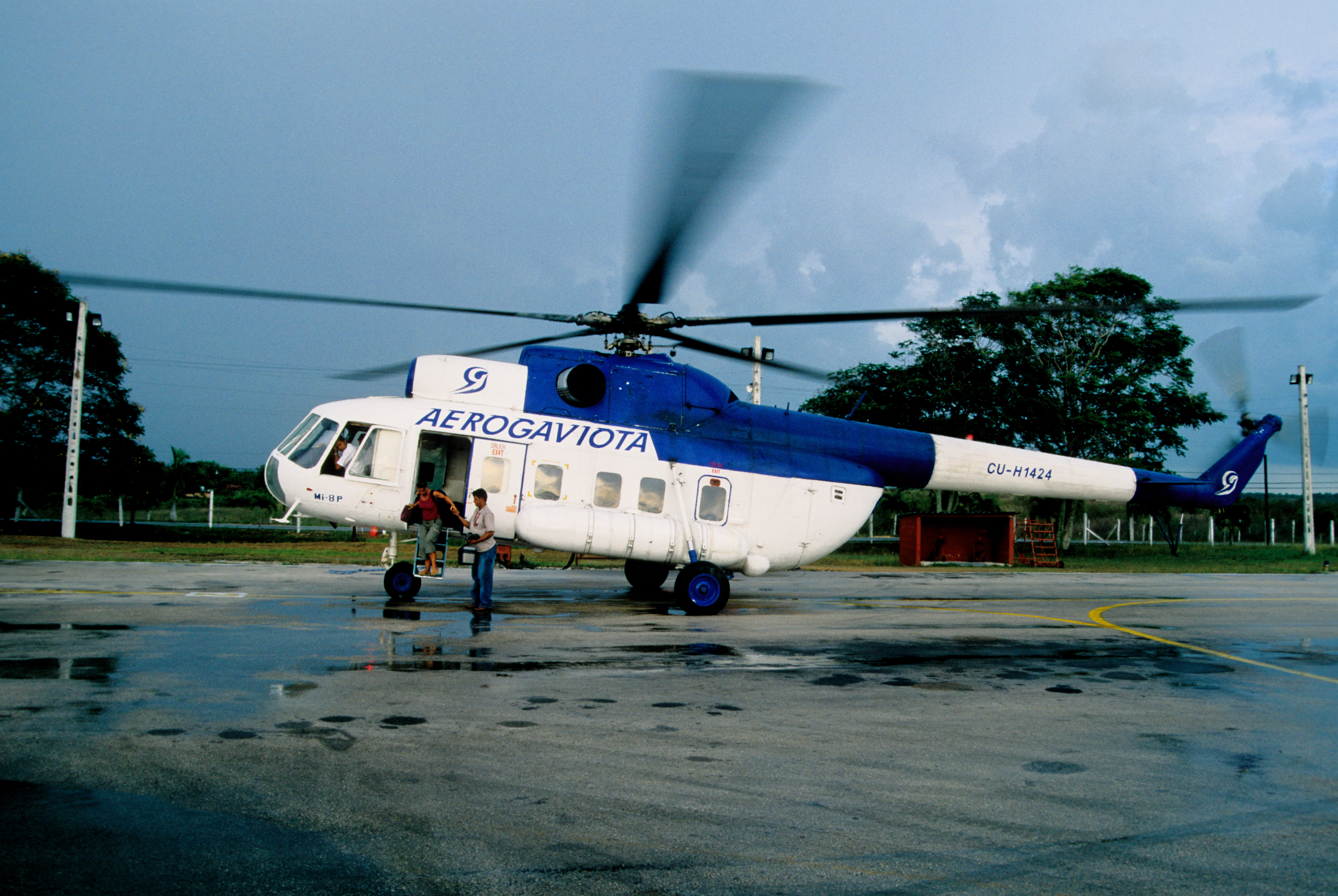 My only ever domestic flight in a helicopter...what an experience! As the Antonov 26 was overbooked on the flight Cayo Largo - Playa Baracoa (close to La Havana) some passengers were flown with the Mi-8, with the front door being open during the whole flight...I can consider myself, lucky, I know...